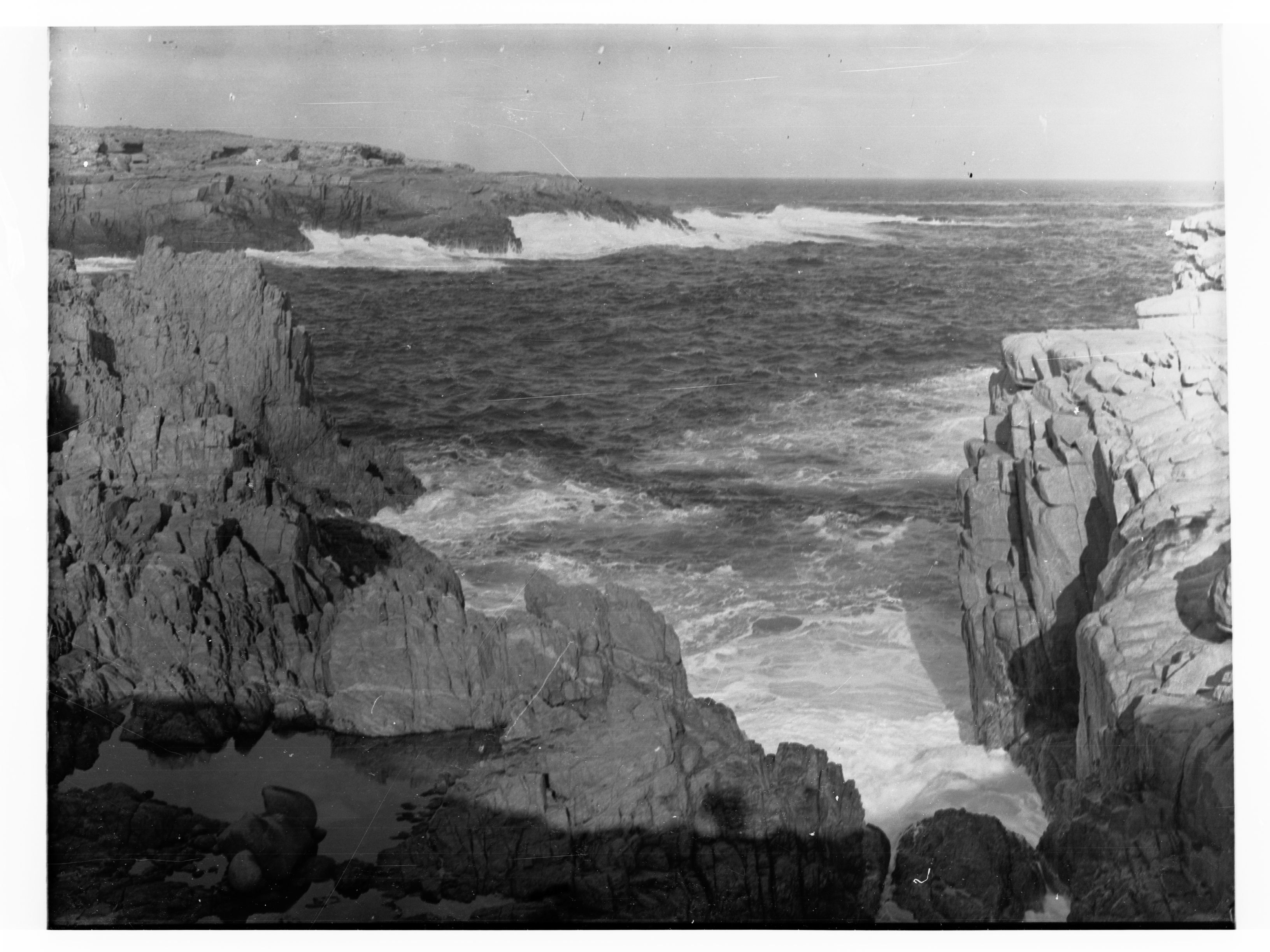 A scene of the clifs at Sleaford Bay, South Australia. Sleaford Bay is in Port Lincoln, South Australia. This image is part of a series of photographs taken by Captain Frank Hurley in 1935.